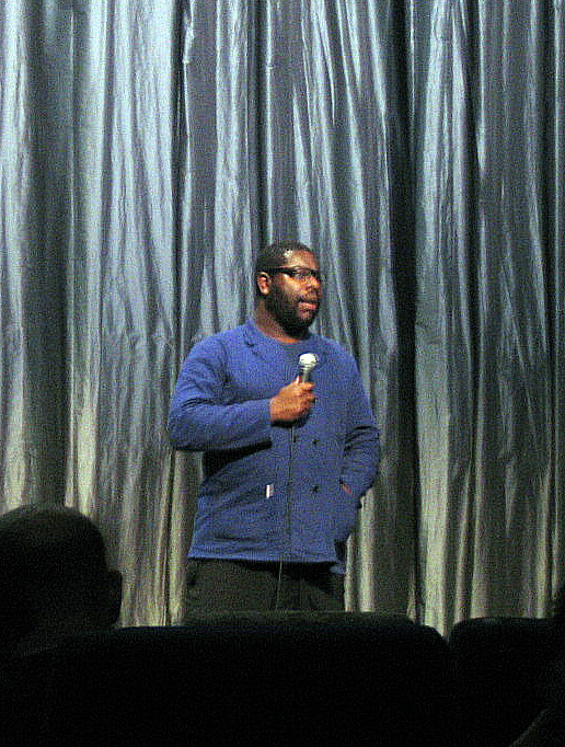 Director Steve McQueen in New York City, March 2009